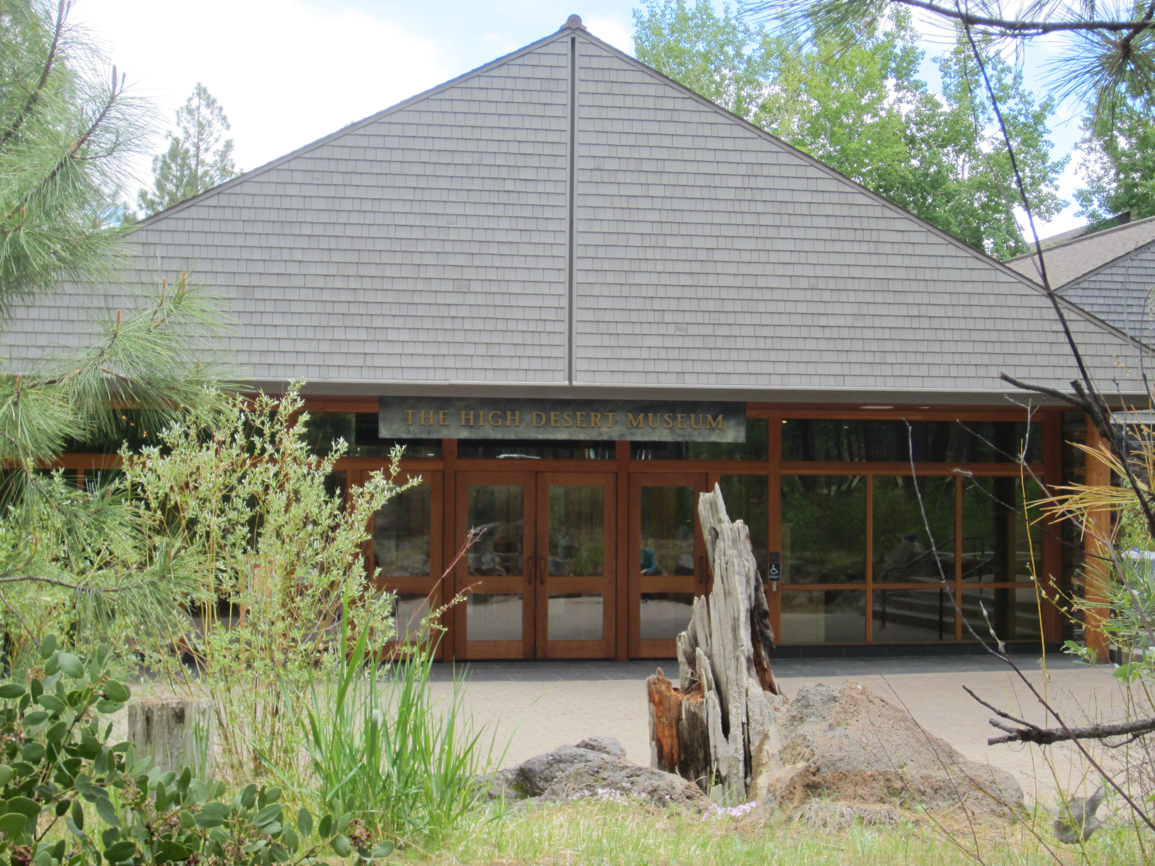 High Desert Museum, Central Oregon, United States (2013)